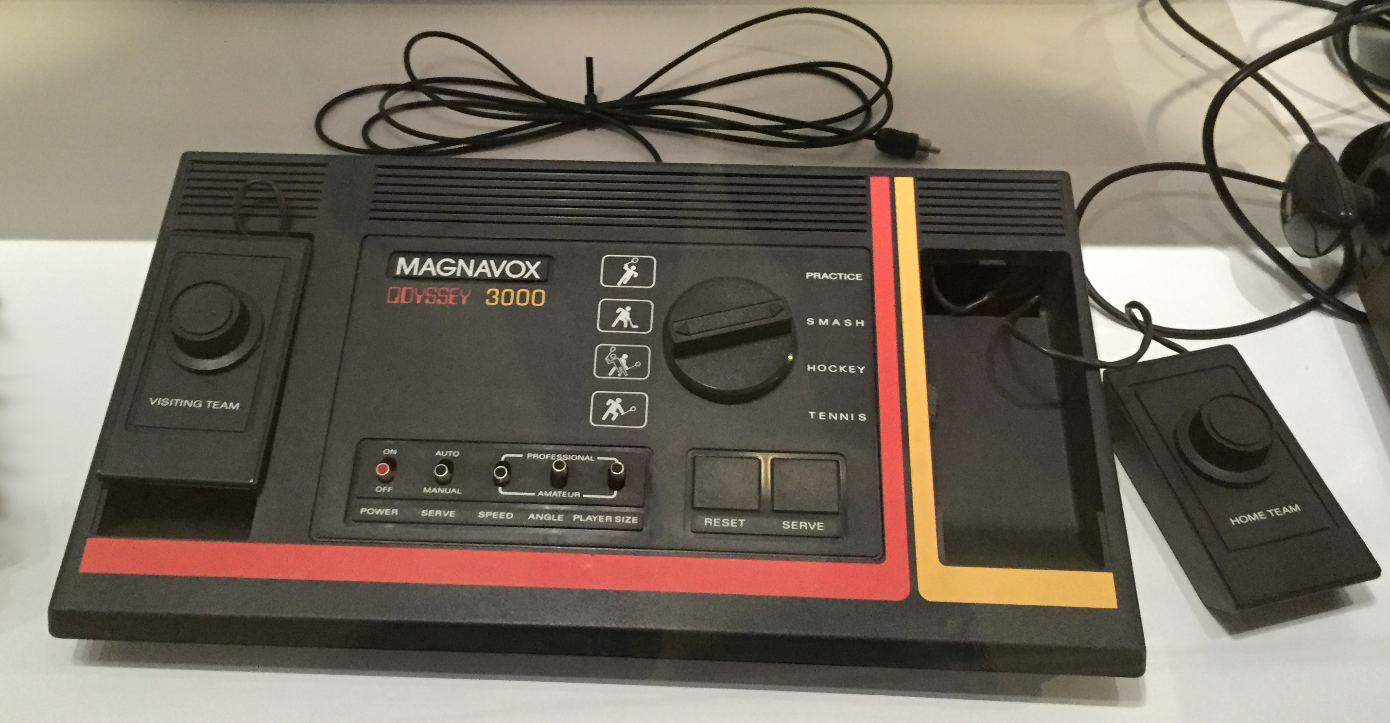 Magnavox Odyssey 3000 Pong console made in 1977. Based on General Instrument AY-3-8500 chip